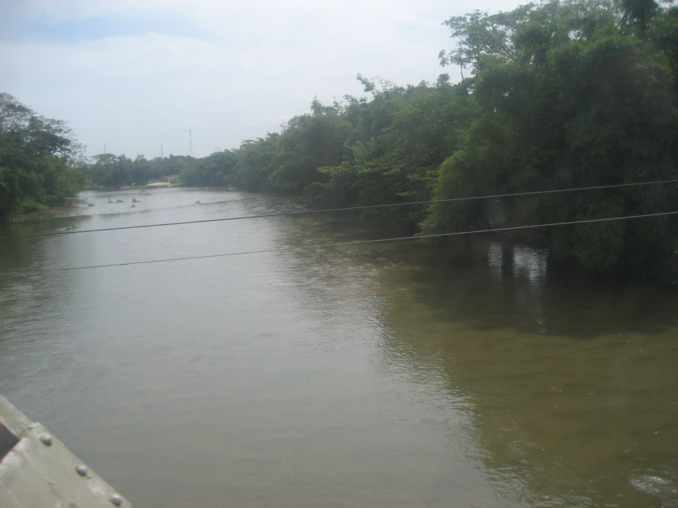 Image of fundacion river, magdalena. taken by me for wikipedia and sister projects. --F3rn4nd0 16:43, 12 March 2007 (UTC)